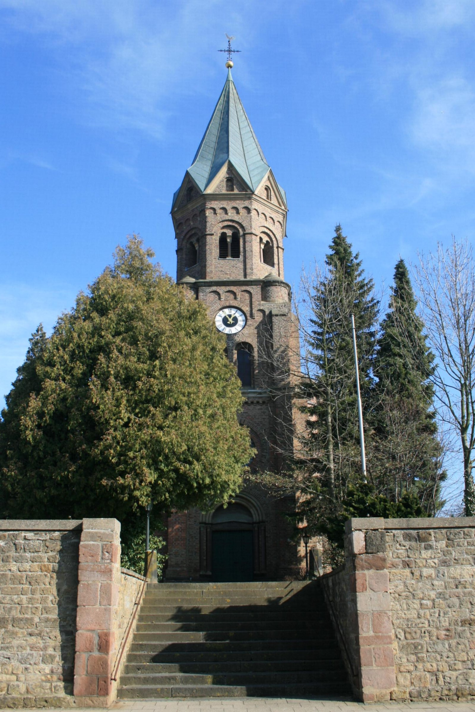 Cultural heritage monument No. Froi-06 in Vettweiß